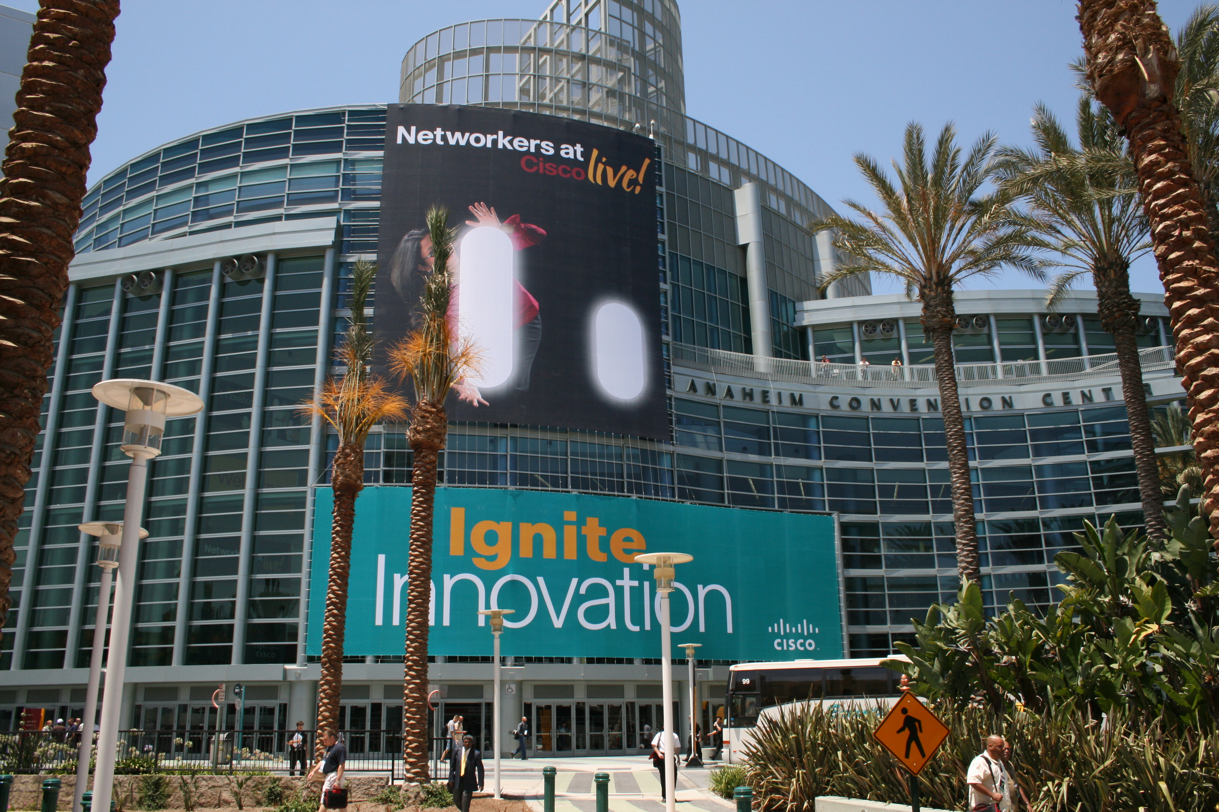 Cisco Networkers 2007 - Anaheim